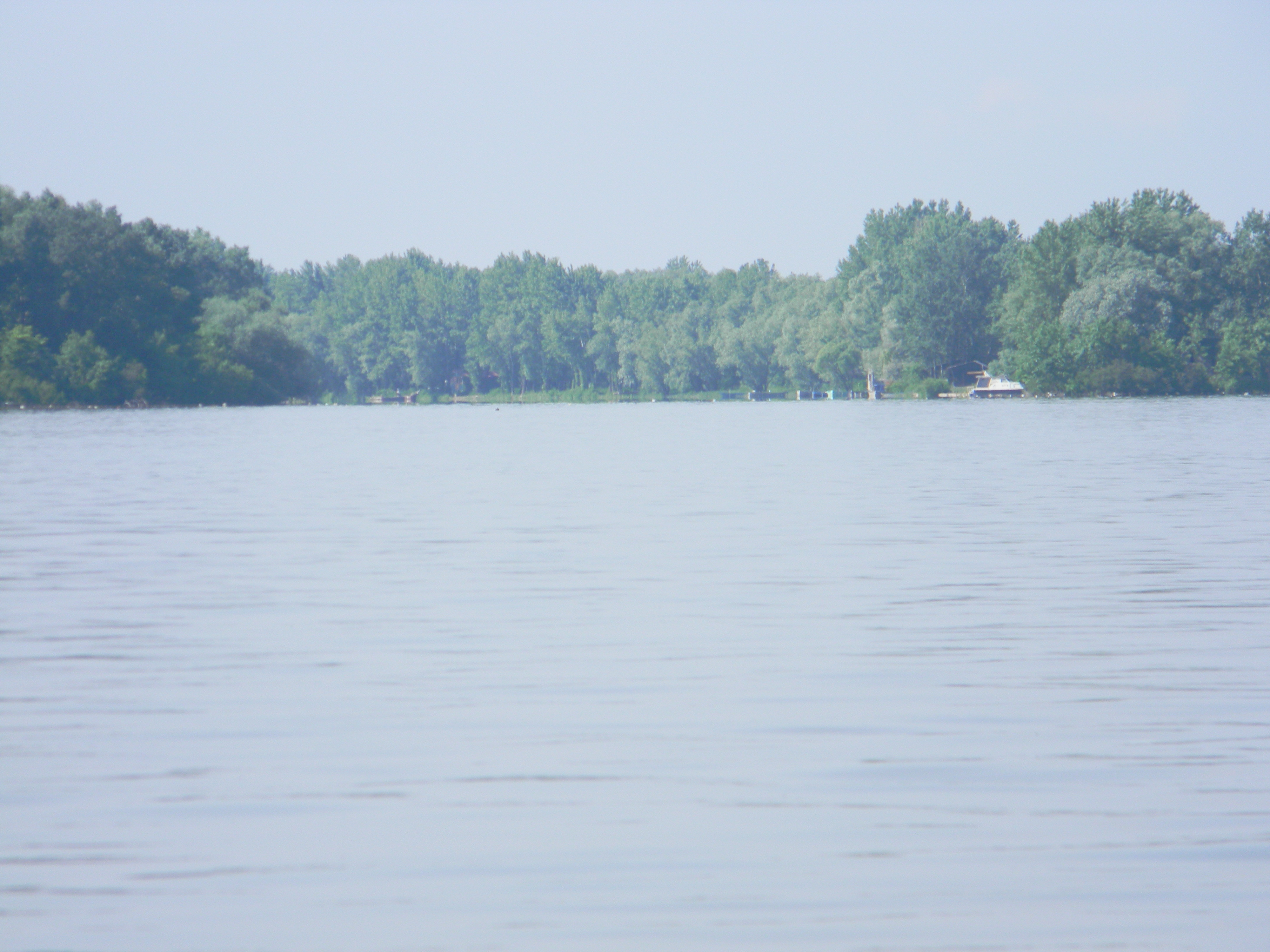 View from Danube, Dubovac side, on Mlava river estuari